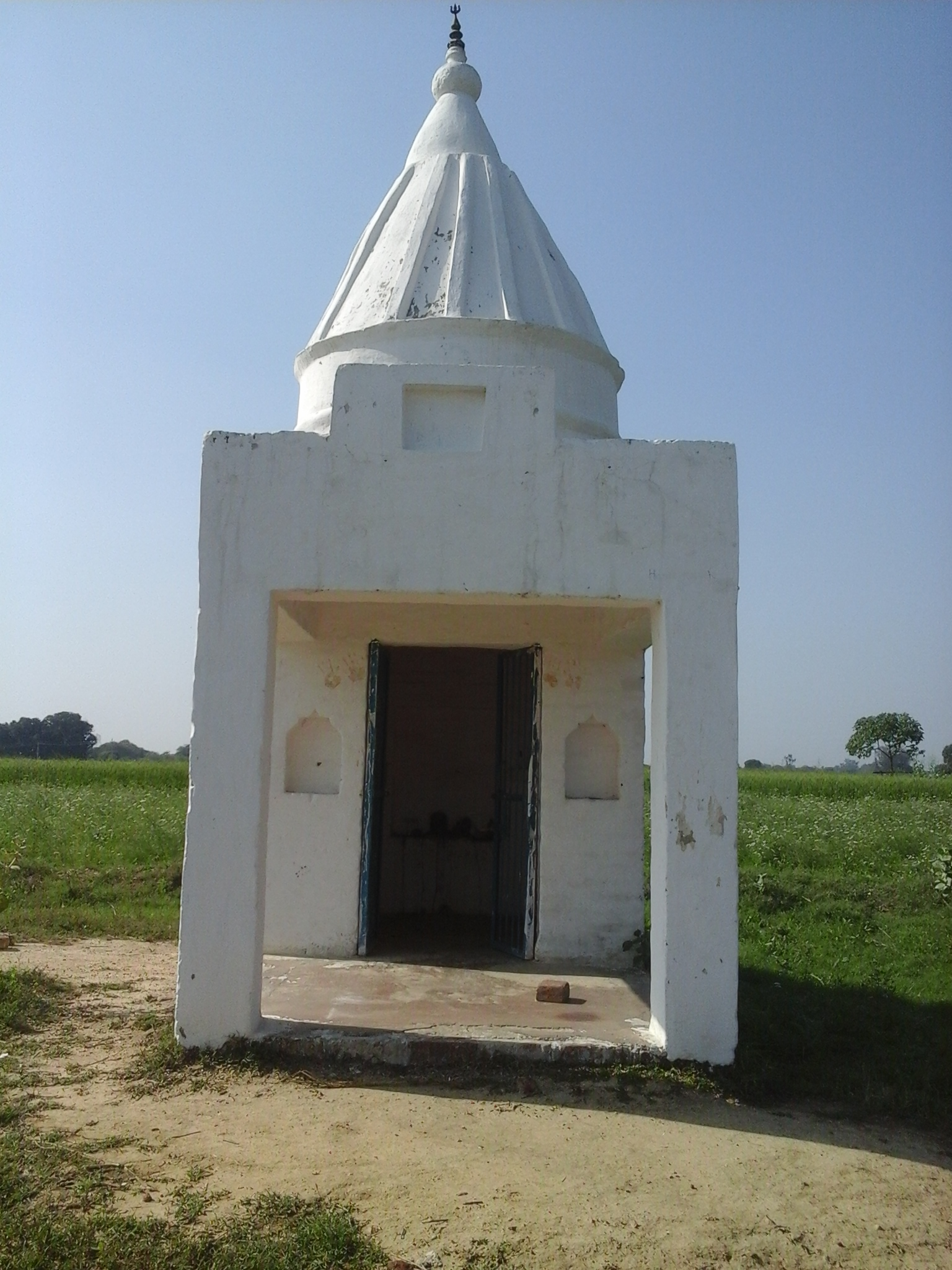 Hardol Temple is rare temple where new spouse after wedding go to temple for blessings.